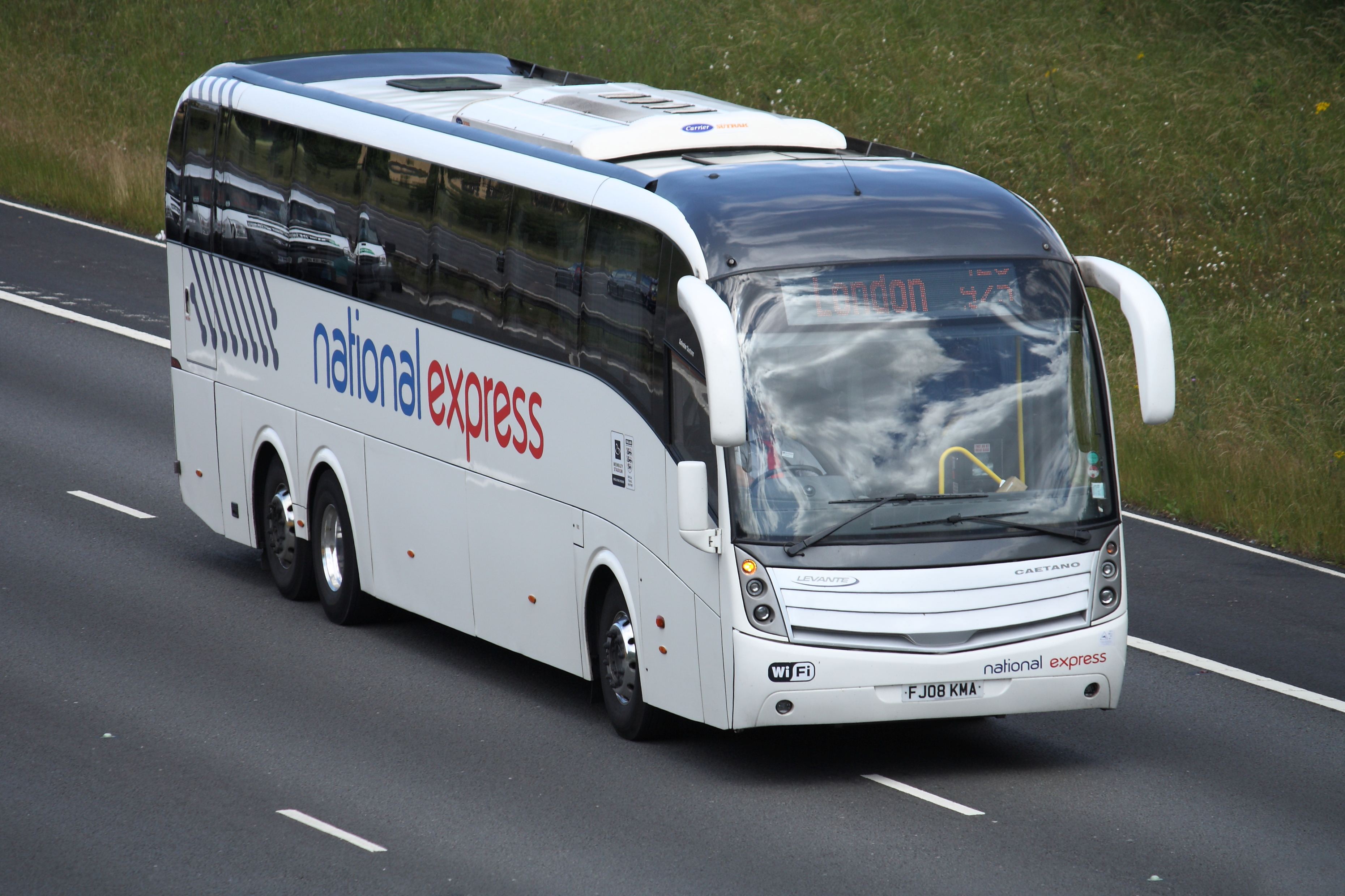 National Express